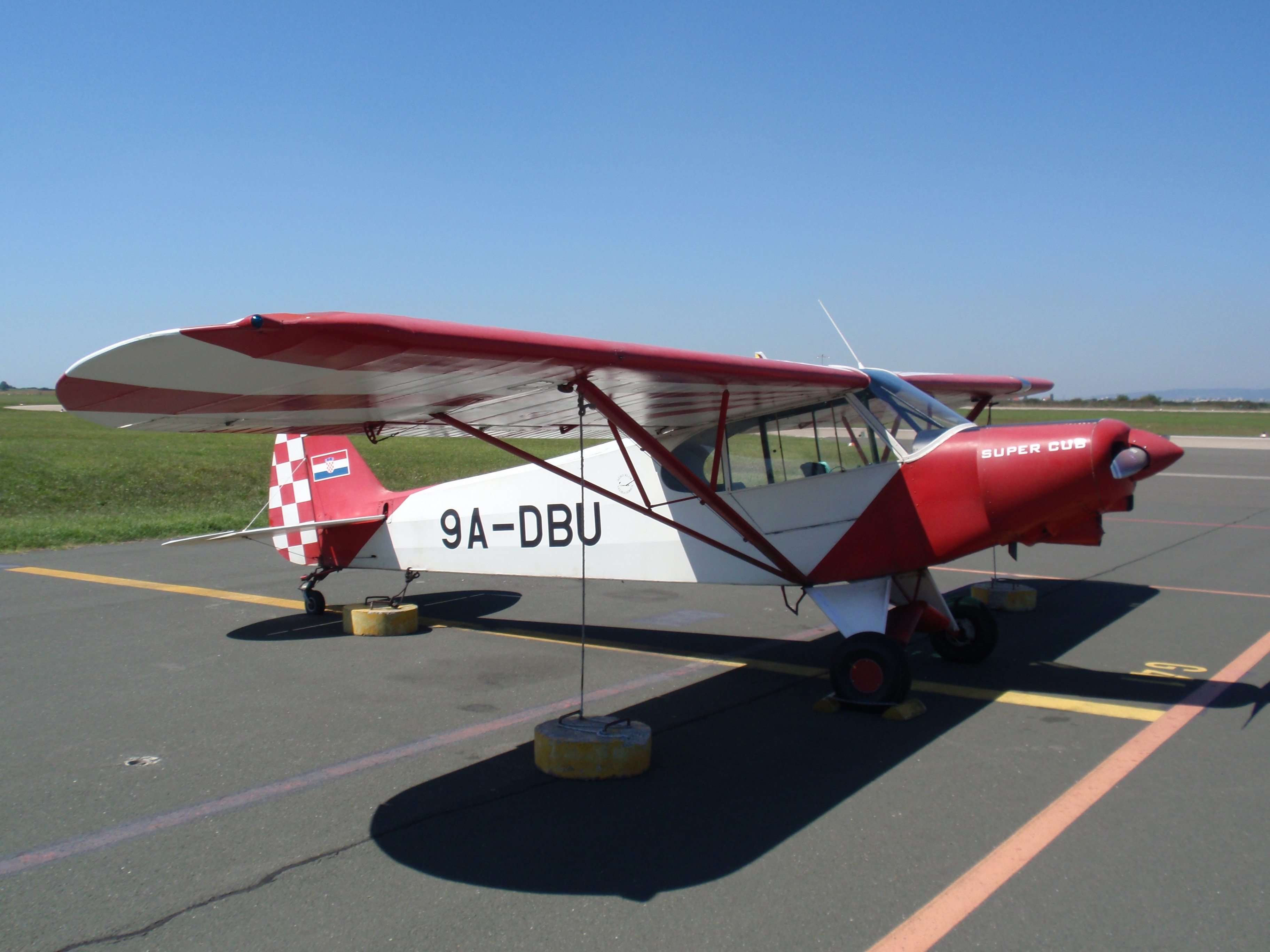 Piper PA-18 Super Cub 9A-DBU, (aeroclub Velika Gorica)